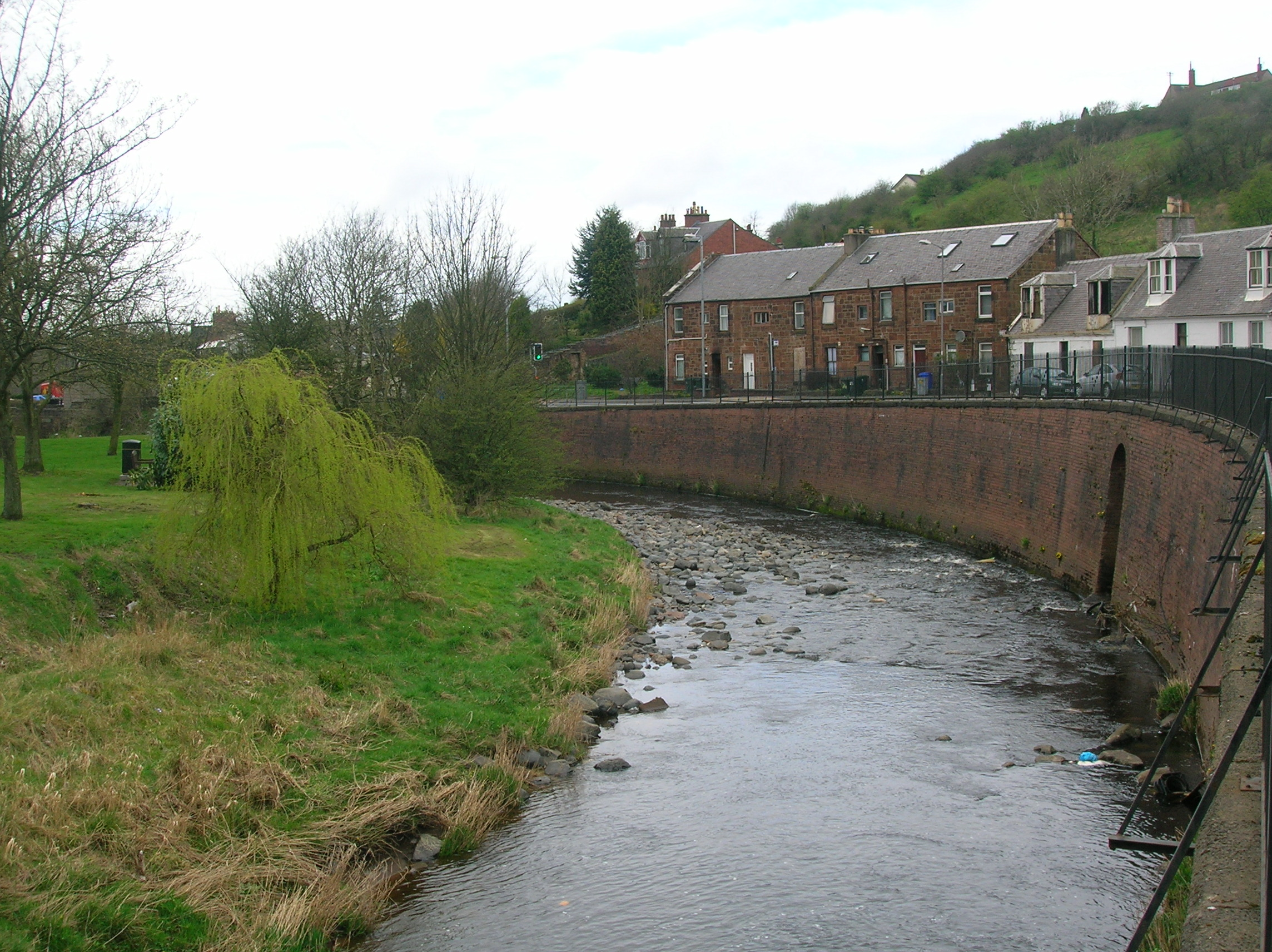 The River Irvine at Newmilns, East Ayrshire, Scotland